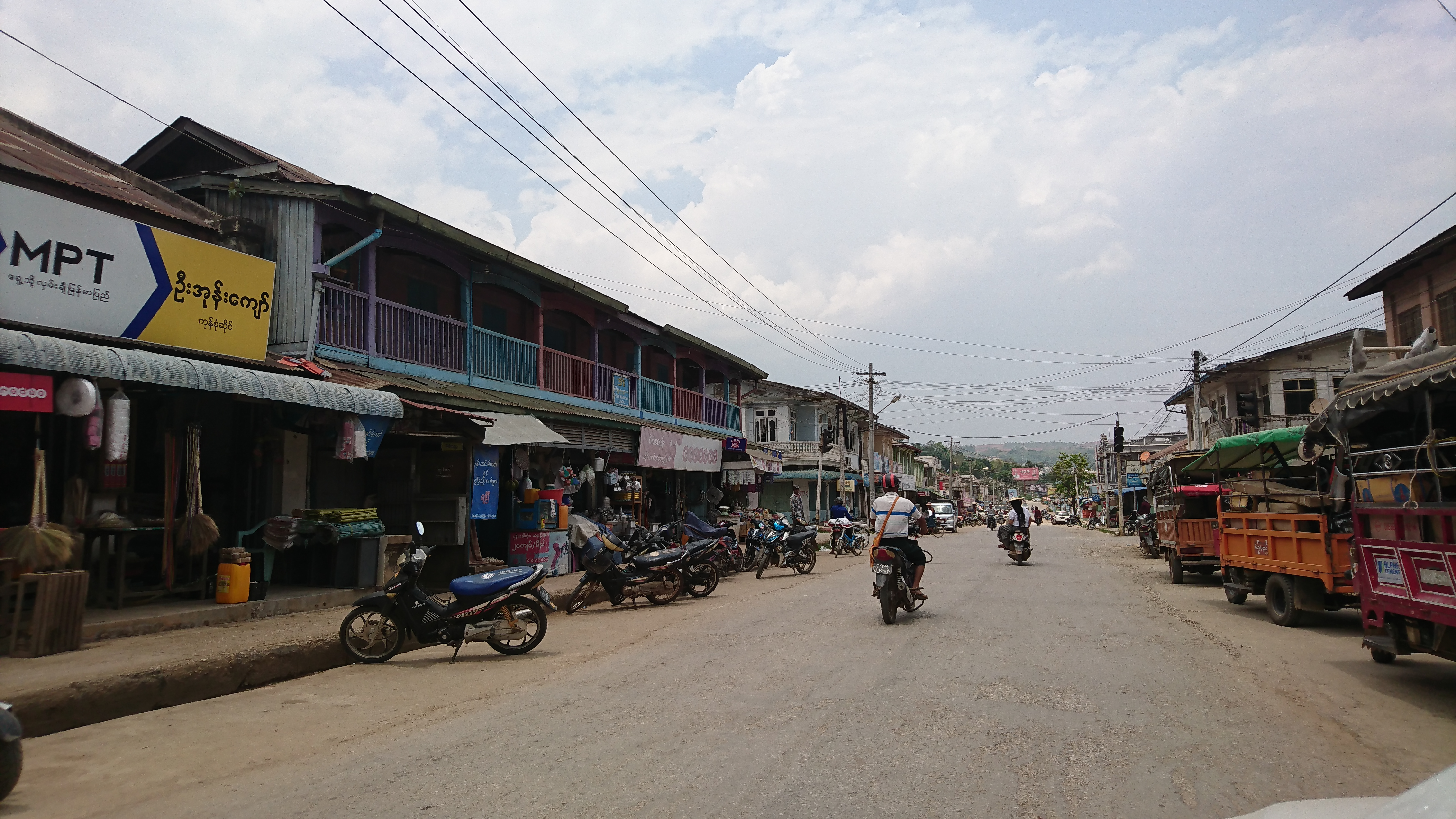 Kyaukme, Shan State, Myanmar မြန်မာဘာသာ: ရှမ်းပြည်နယ်၊ ကျောက်မဲမြို့။